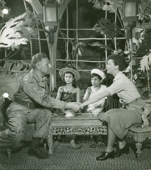 Ezio Pinza, Barbara Luna, Michael or Noel De Leon, Mary Martin, in the final scene of the original production of South Pacific (1949)